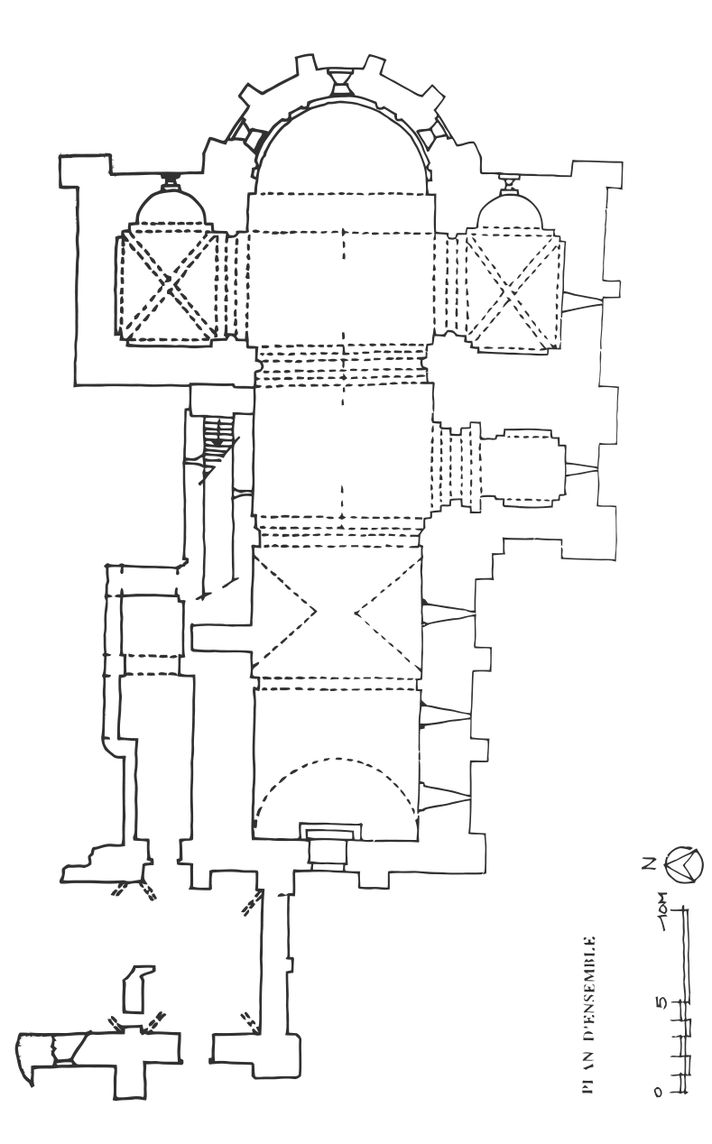 Vectorized plan of the cathedral of Maguelone.